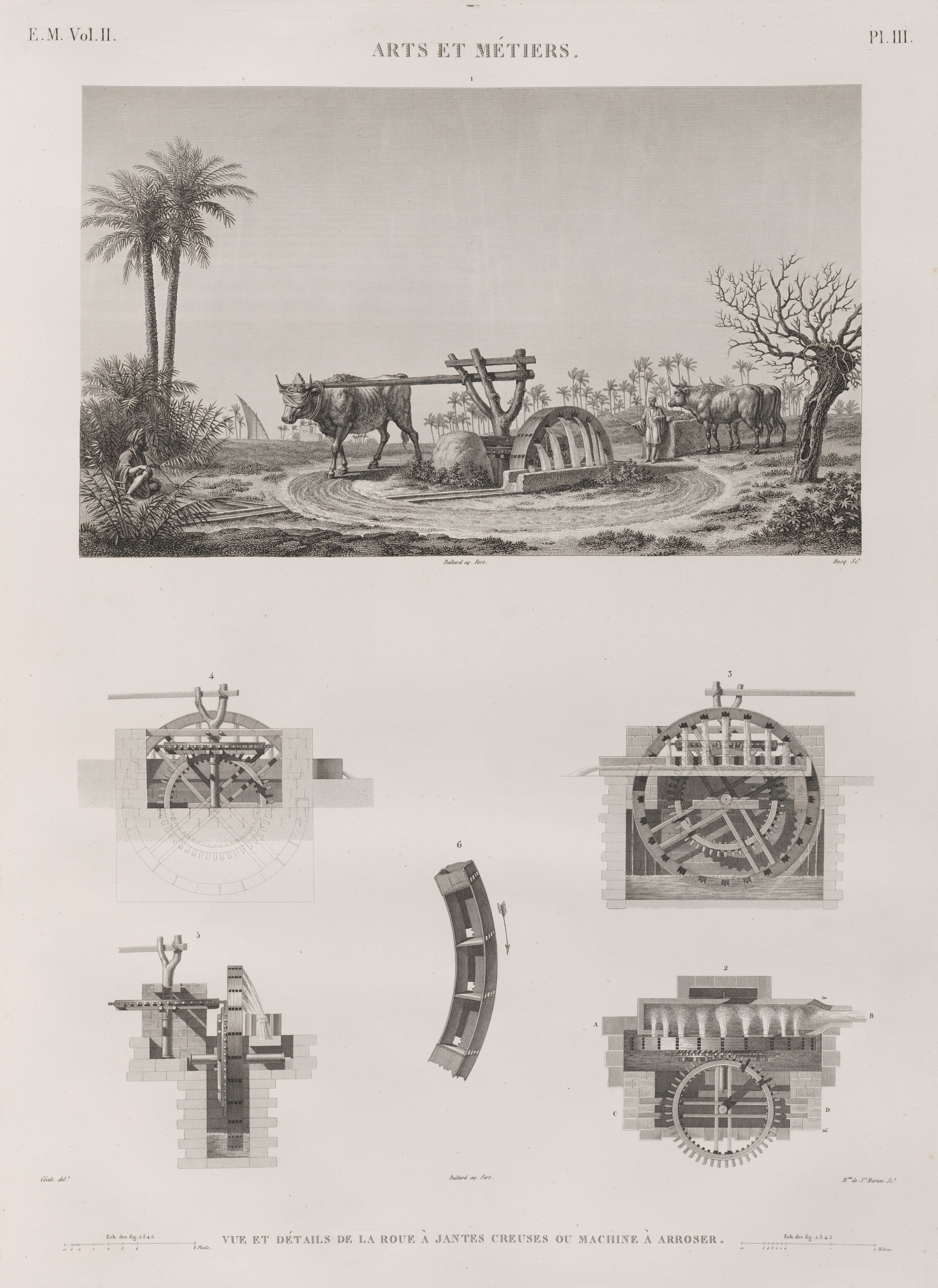 Arts et métiers. Vue et détails de la roue à jantes creuses ou machine à arroser.